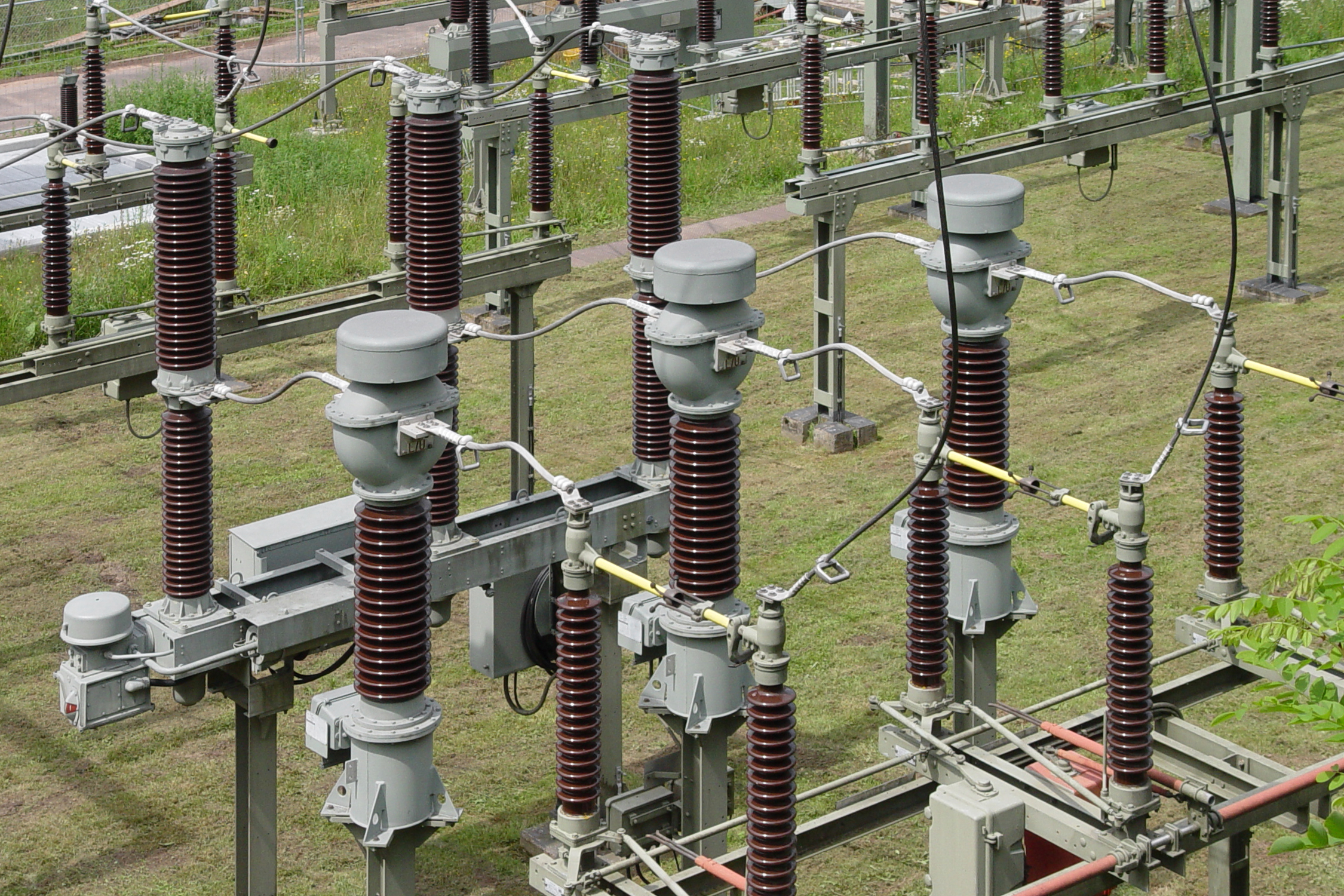 High voltage current converters at Schweinheim 110 kV substation, Germany